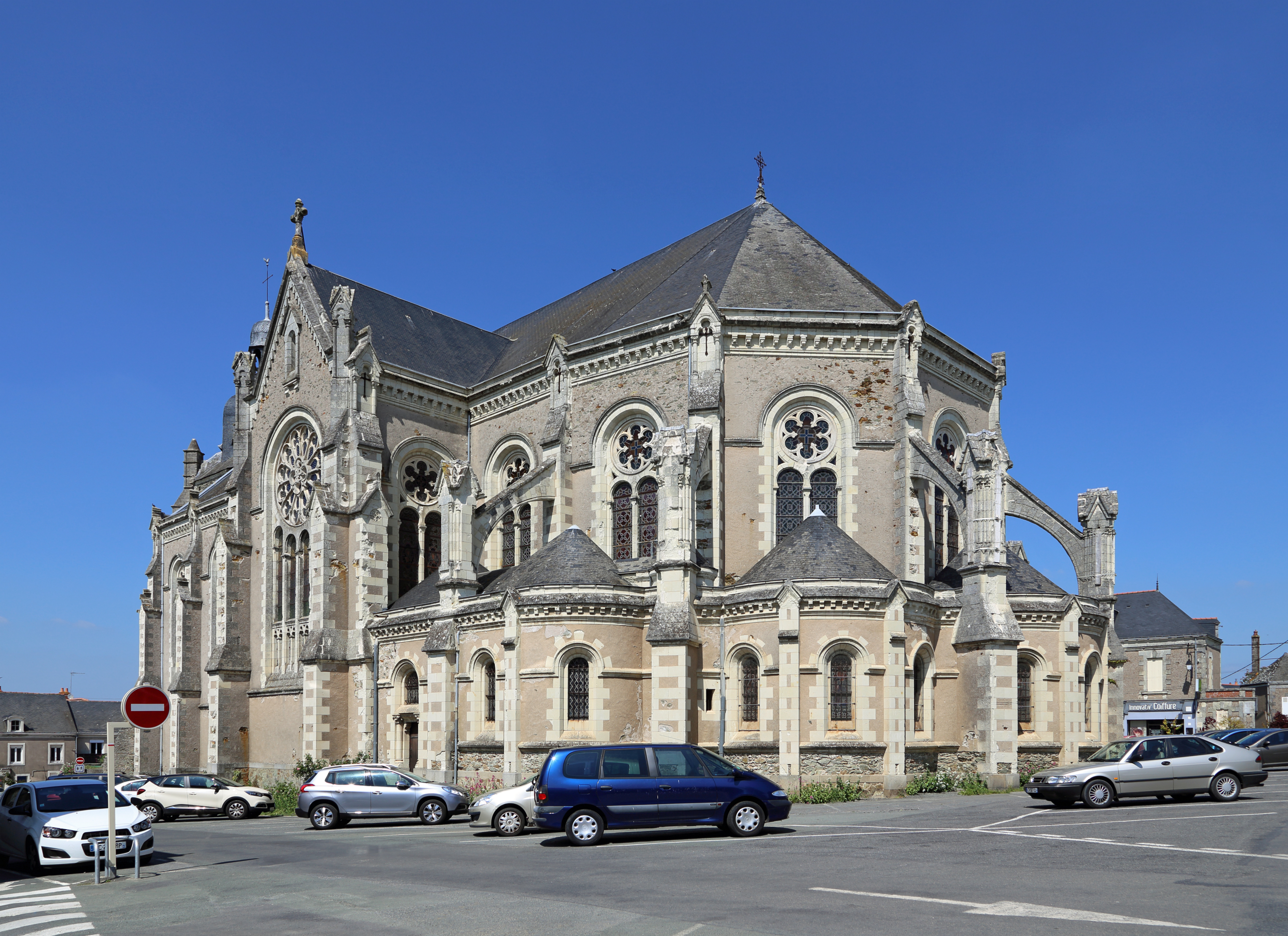 Rochefort-sur-Loire (département Maine-et-Loire, France): church of the Holy Cross (Église Sainte-Croix)